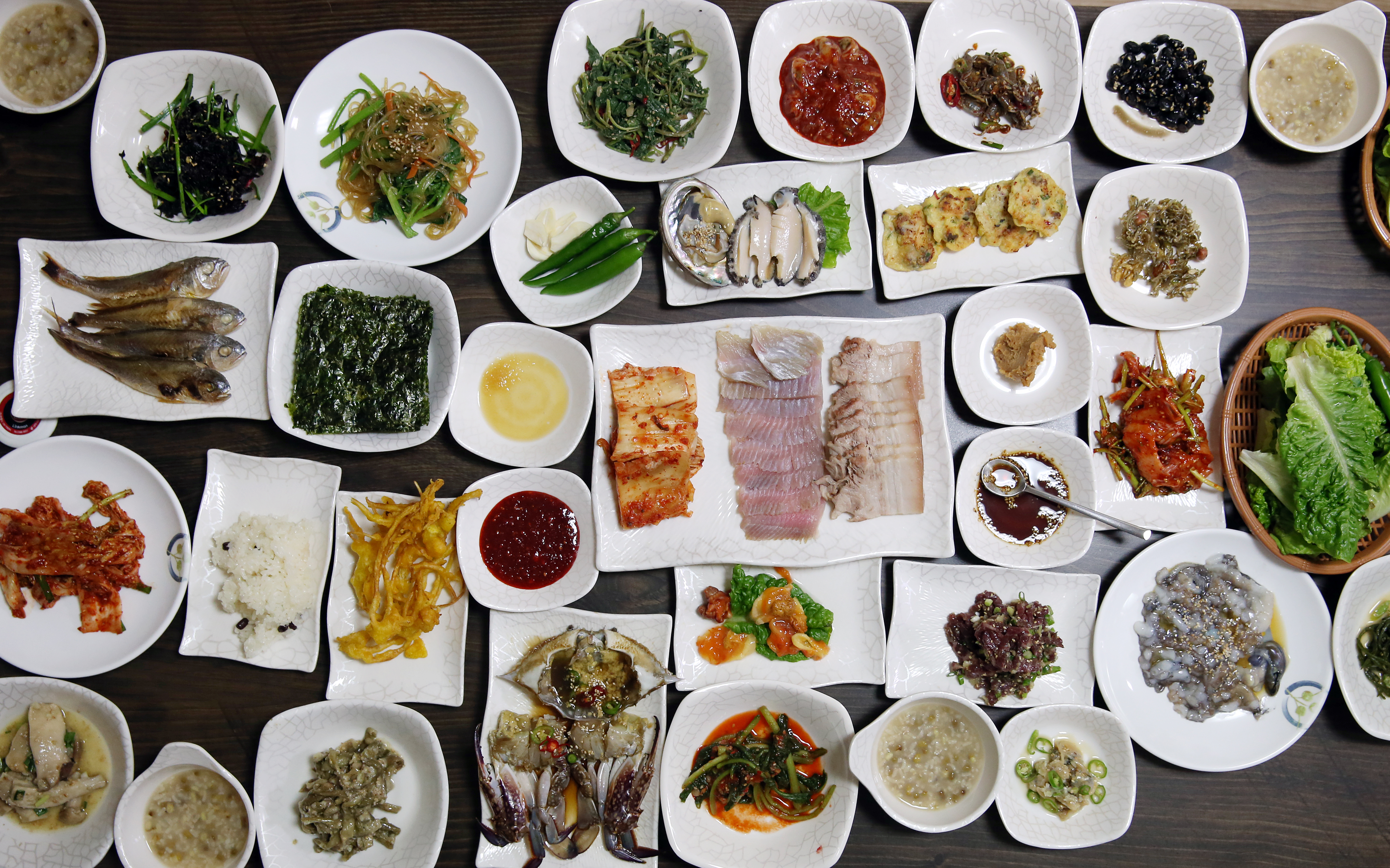 KORAIL Tour Jeollanam-do Province by Honam KTXApril 23, 2015Gangjin-gun County, Jeollanam-do ProvinceMinistry of Culture, Sports and TourismKorean Culture and Information ( Photographer : Jeon HanThis official Republic of Korea photograph is being made available only for publication by news organizations and/or for personal printing by the subject(s) of the photograph. The photograph may not be manipulated in any way. Also, it may not be used in any type of commercial, advertisement, product or promotion that in any way suggests approval or endorsement from the government of the Republic of Korea.-------------------------------------------------코레일 남도 기차여행2015-04-23전라남도 강진군문화체육관광부해외문화홍보원코리아넷전한